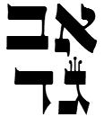 First four letters of Hebrew alphabet with "tagim" on Gimel